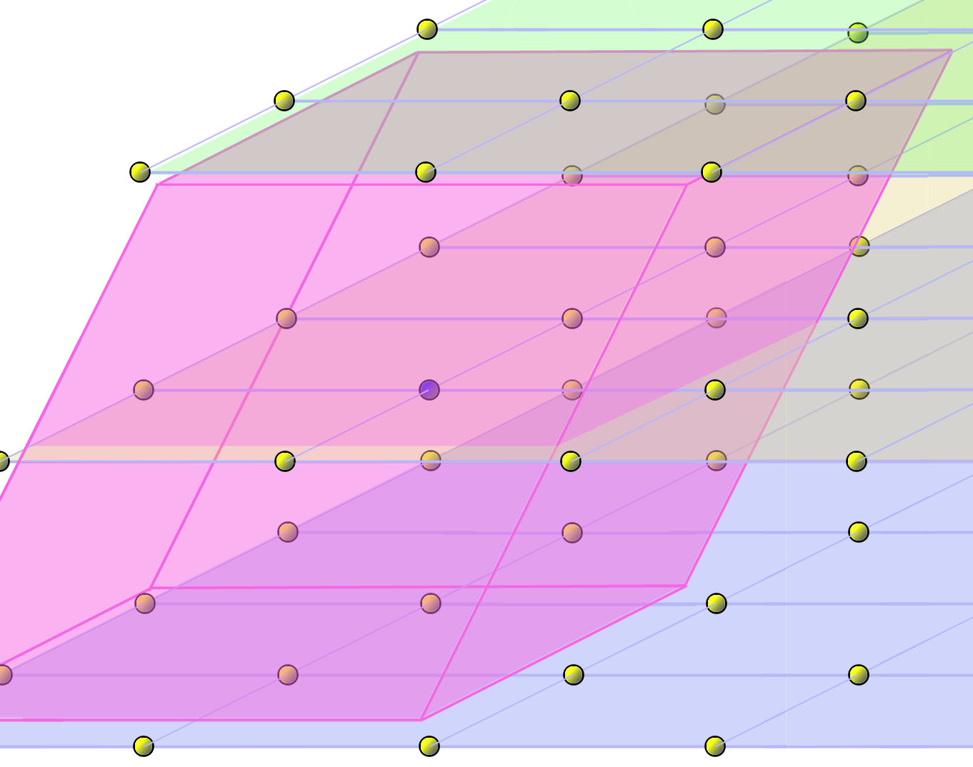 Minkowski's theorem's illustration, about geometrical arithmetics.